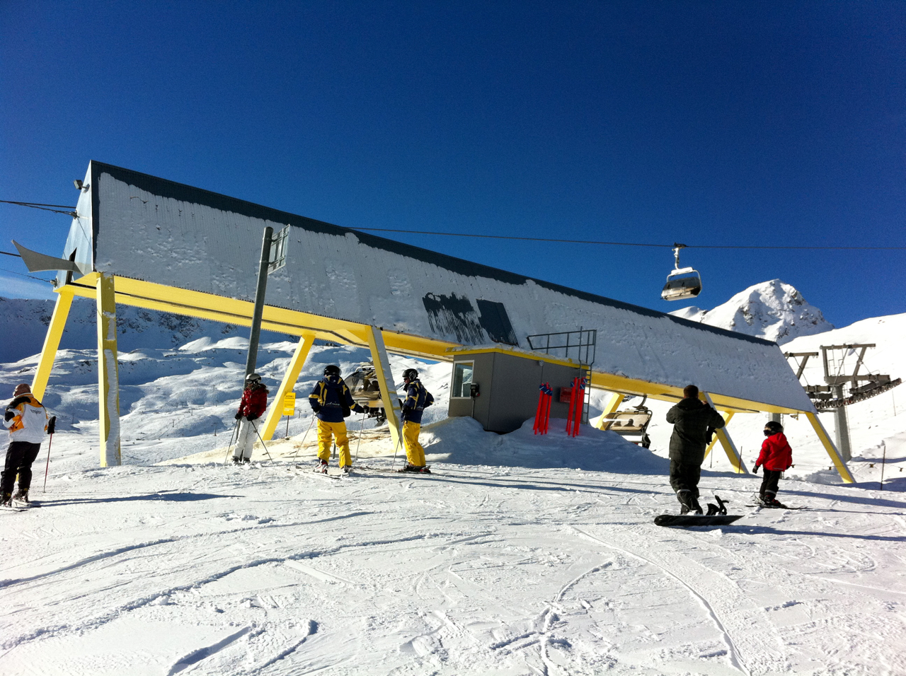 Chairlift Carmenna, middle station